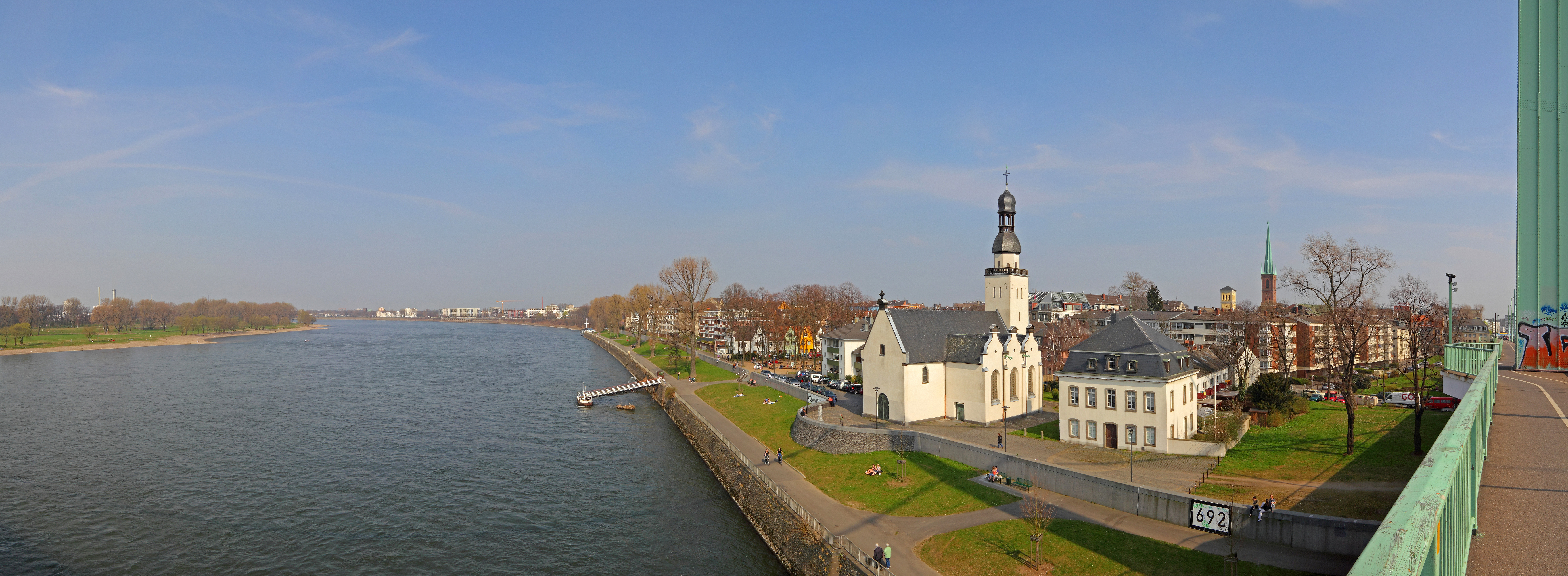 The Rhine and the embankment in Cologne-Mülheim. View from the Mülheimer Bridge.